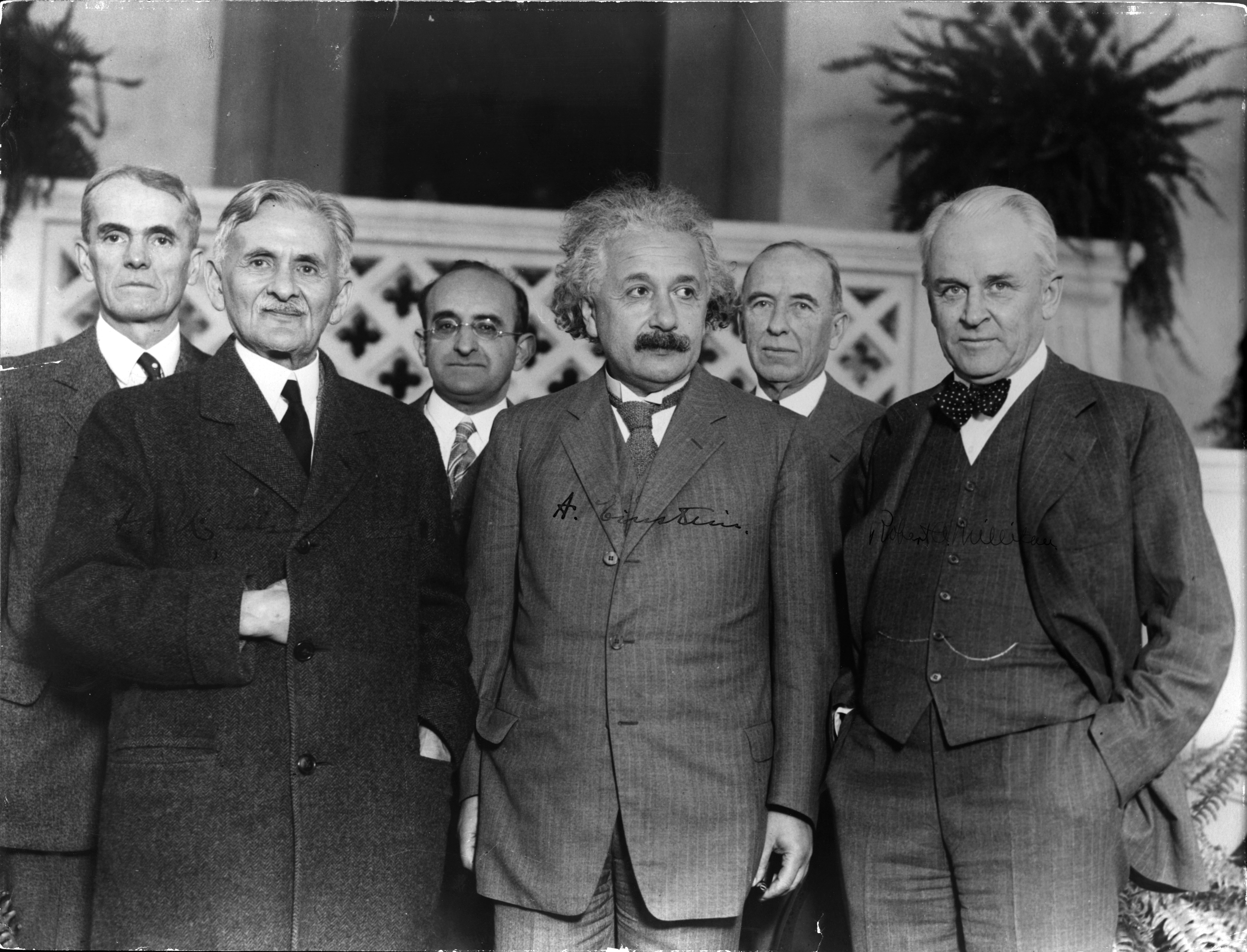 Left to Right: Walter Sydney Adams, Albert Abraham Michelson, Walther Mayer, Albert Einstein, Max Farrand, Robert Andrews Millikan Date: 1931 Repository: Smithsonian Institution Libraries Collection: Scientific Identity: Portraits from the Dibner Library of the History of Science and Technology - As a supplement to the Dibner Library for the History of Science and Technology's collection of written works by scientists, engineers, natural philosophers, and inventors, the library also has a collection of thousands of portraits of these individuals. The portraits come in a variety of formats: drawings, woodcuts, engravings, paintings, and photographs, all collected by donor Bern Dibner. Presented here are a few photos from the collection, from the late 19th and early 20th century. Accession number: SIL14-E1-10